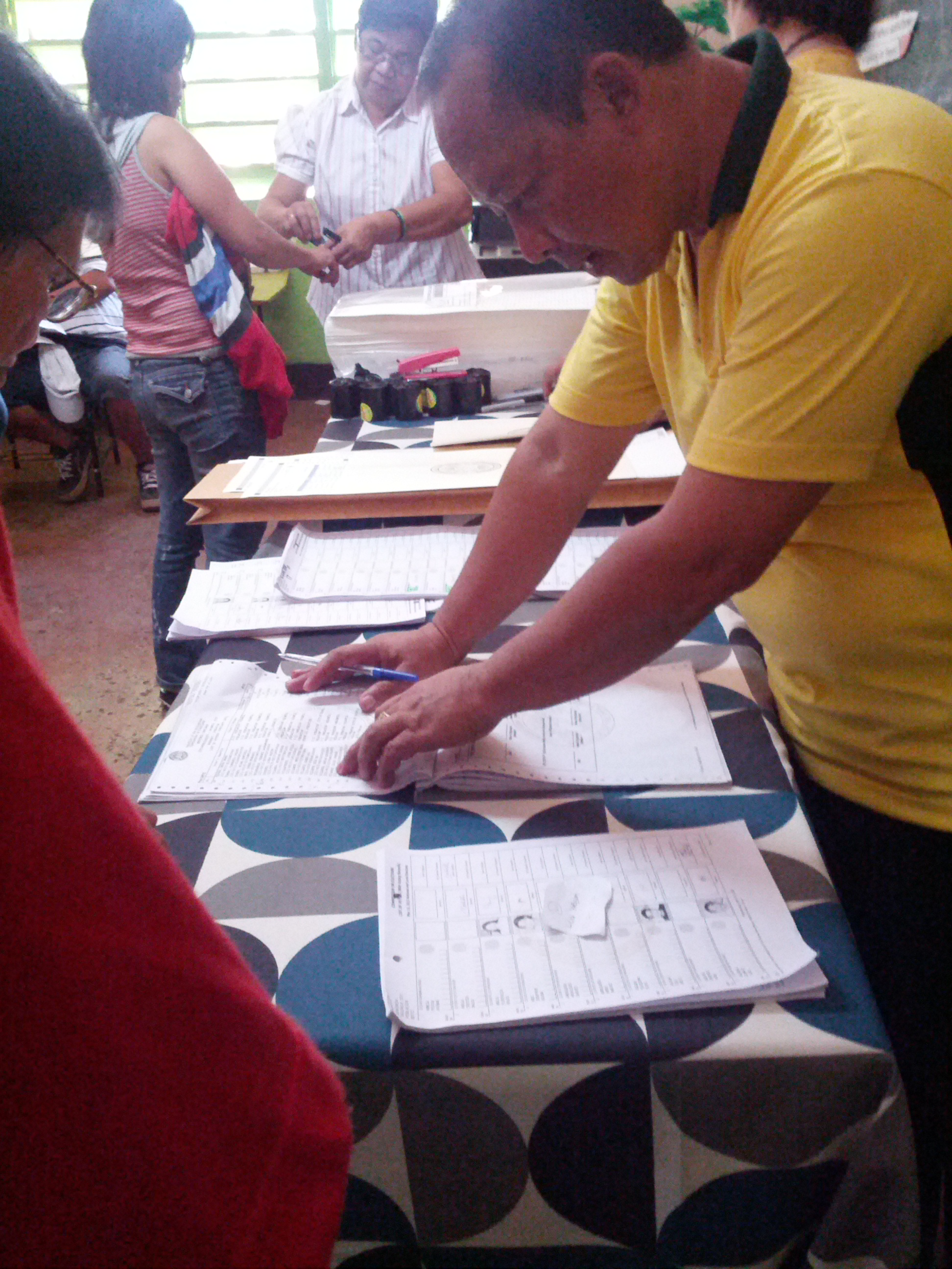 Election officer looks up for a name in the voter's list.